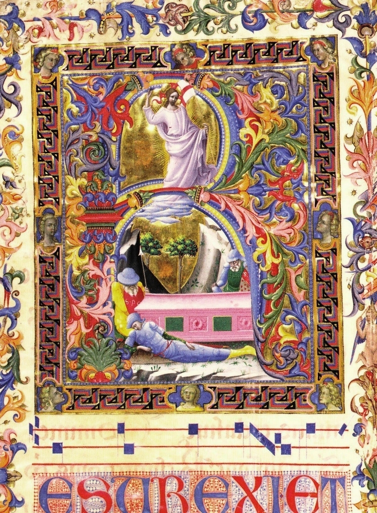 Lorenzo Monaco, Graduale, c. 1410 Corali 3, Biblioteca Medicea Laurenziana, Firenze